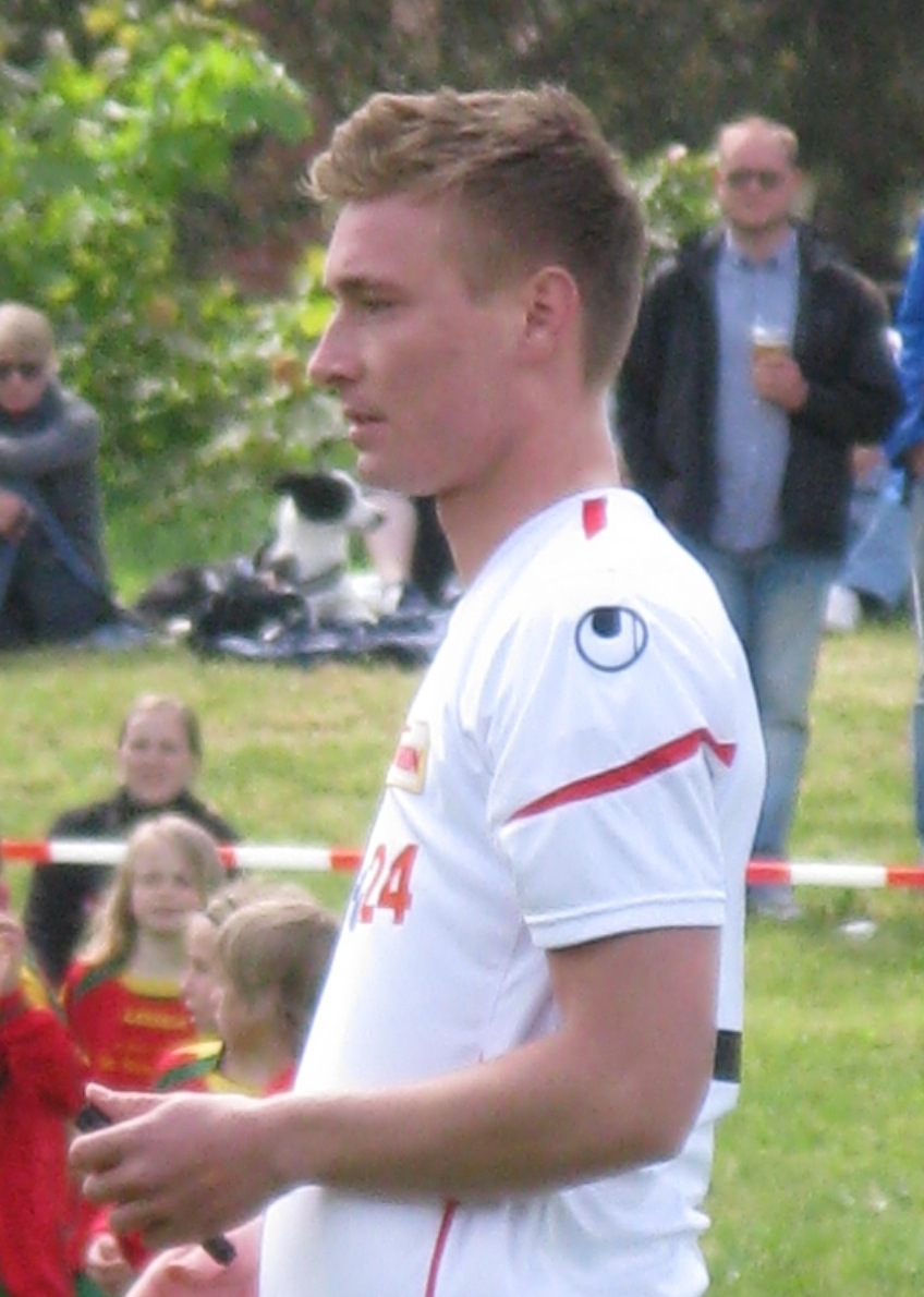 The german football player Christoph Menz playing for the 1. FC Union Berlin.